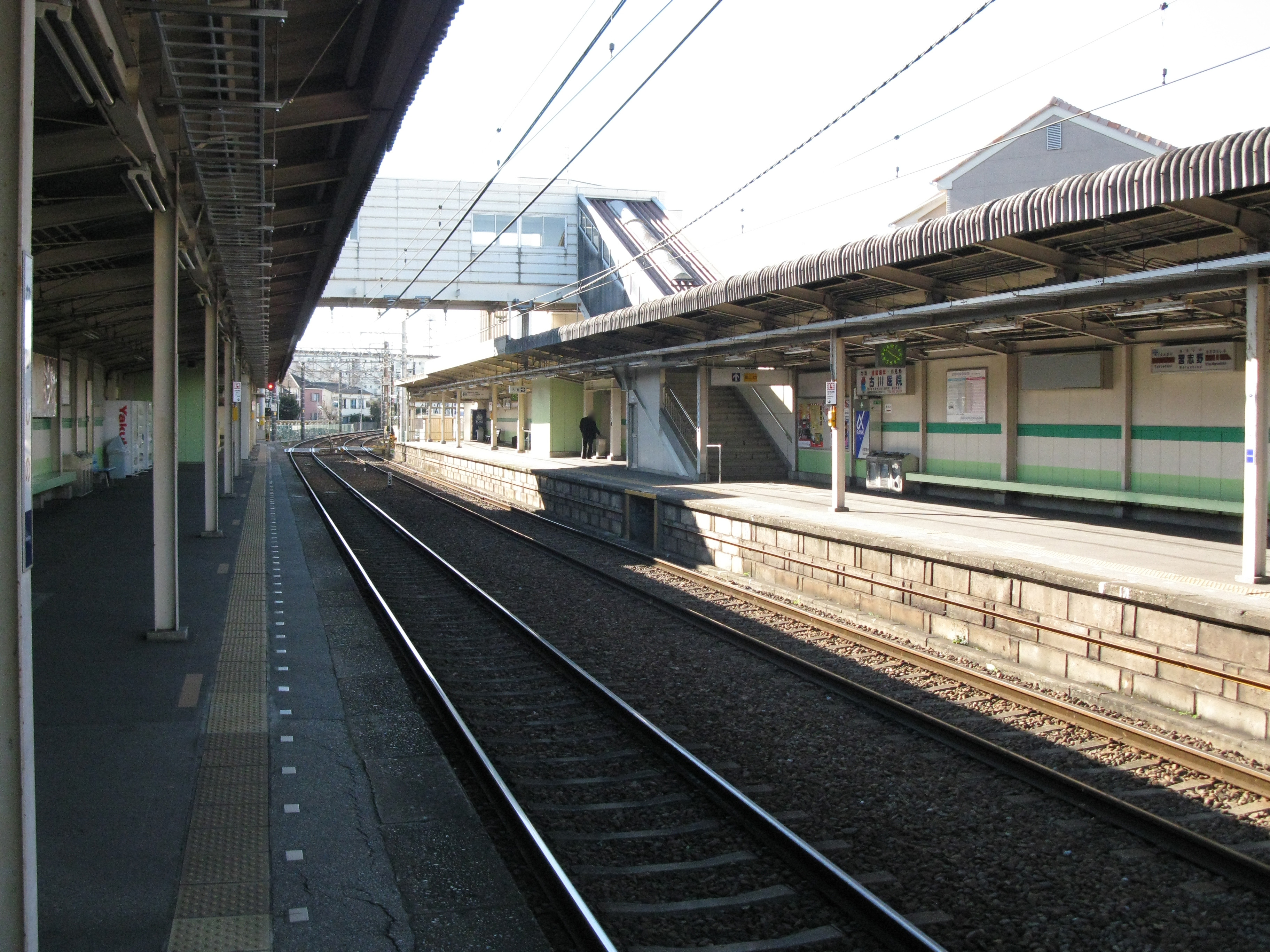 Narashino Station platform (Shin-Keisei Electric Railway Shin-Keisei Line)